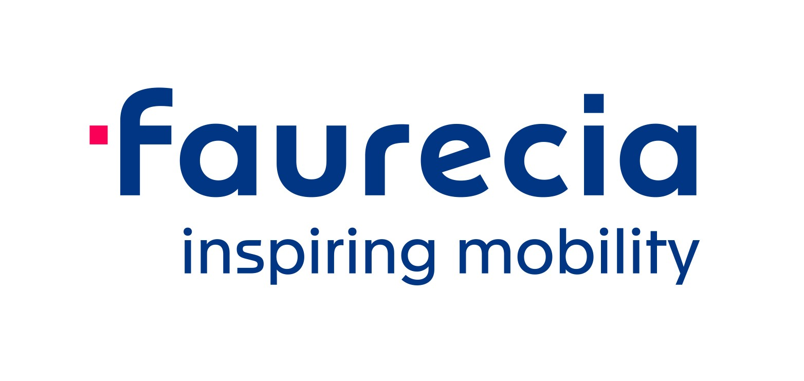 Faurecia Logo